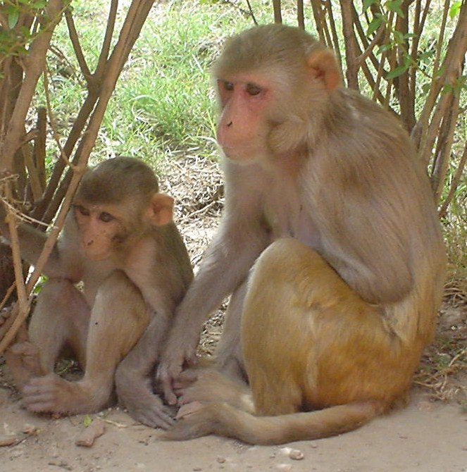 One female and one young Rhesus Macaque, photo made in the Red Fort in Agra, India.